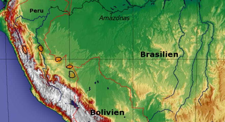 Range map of the Blue-headed Macaw (Primolius couloni). Ranges may not be accurate and excludes rages outside of the map.